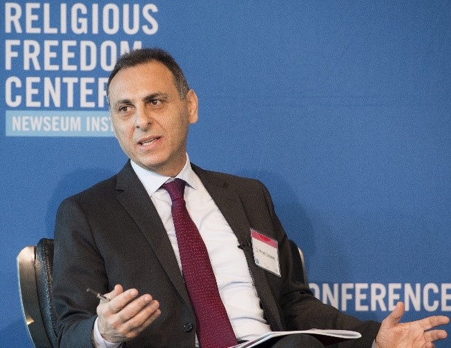 Imad Salamey